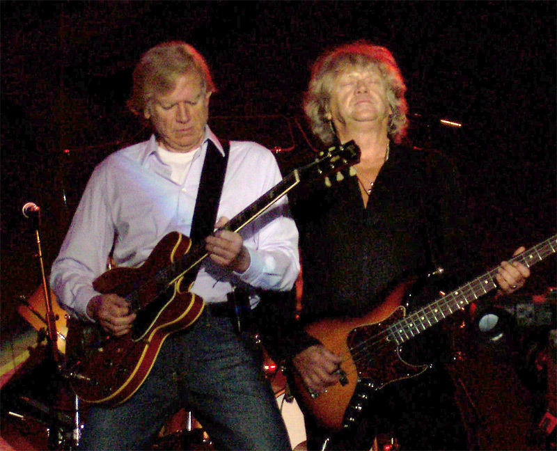 from Moody Blues Moondance Jam concert 7/14/07. Photo by Matt Becker